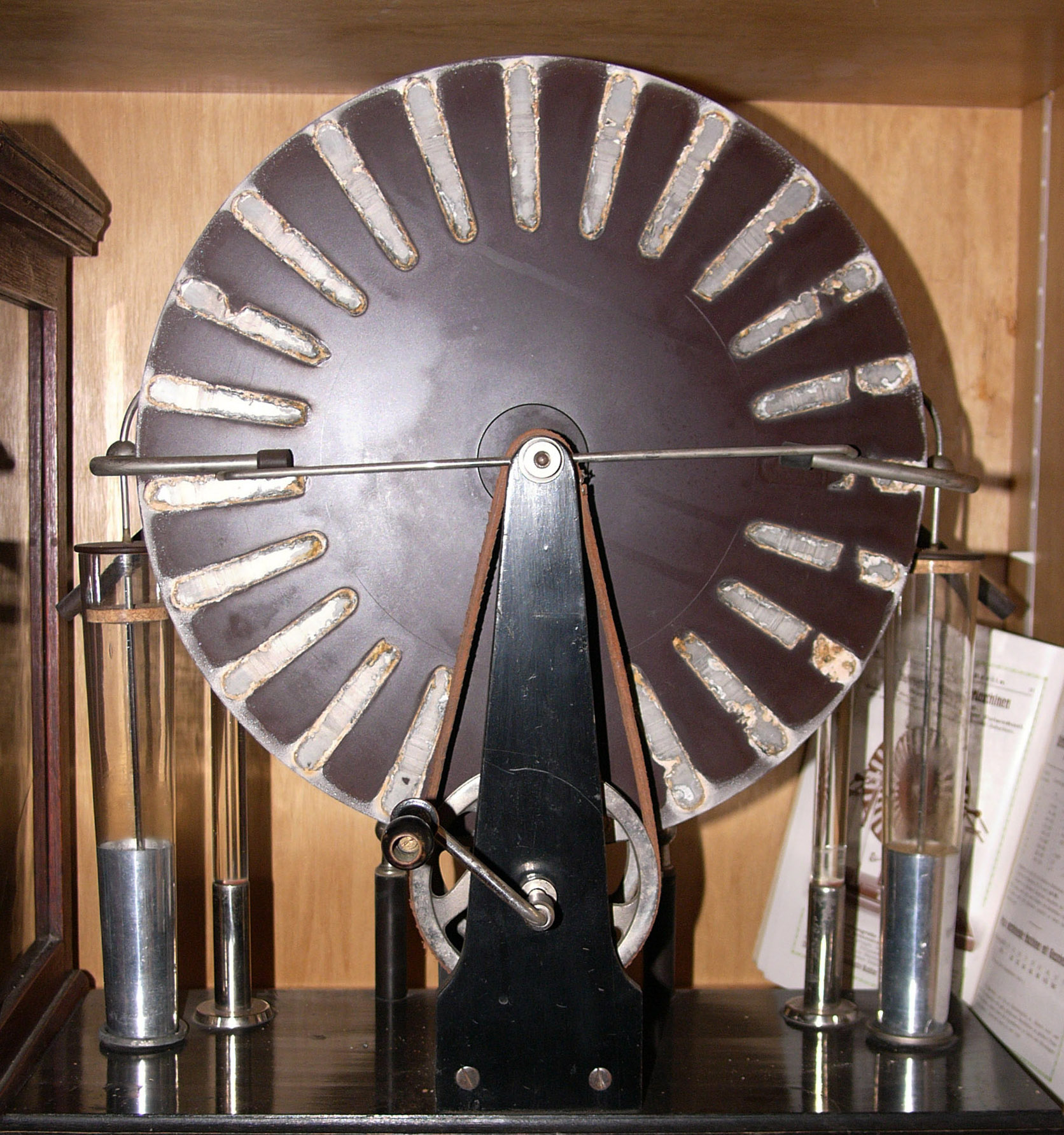 Electrostatic generator, invented by Wilhelm Holtz, on display in the Schulhistorische Sammlung (School Historical Museum), Bremerhaven, Germany.